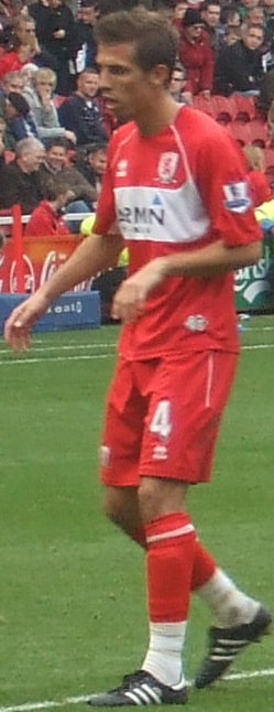 Gary O'Neil.